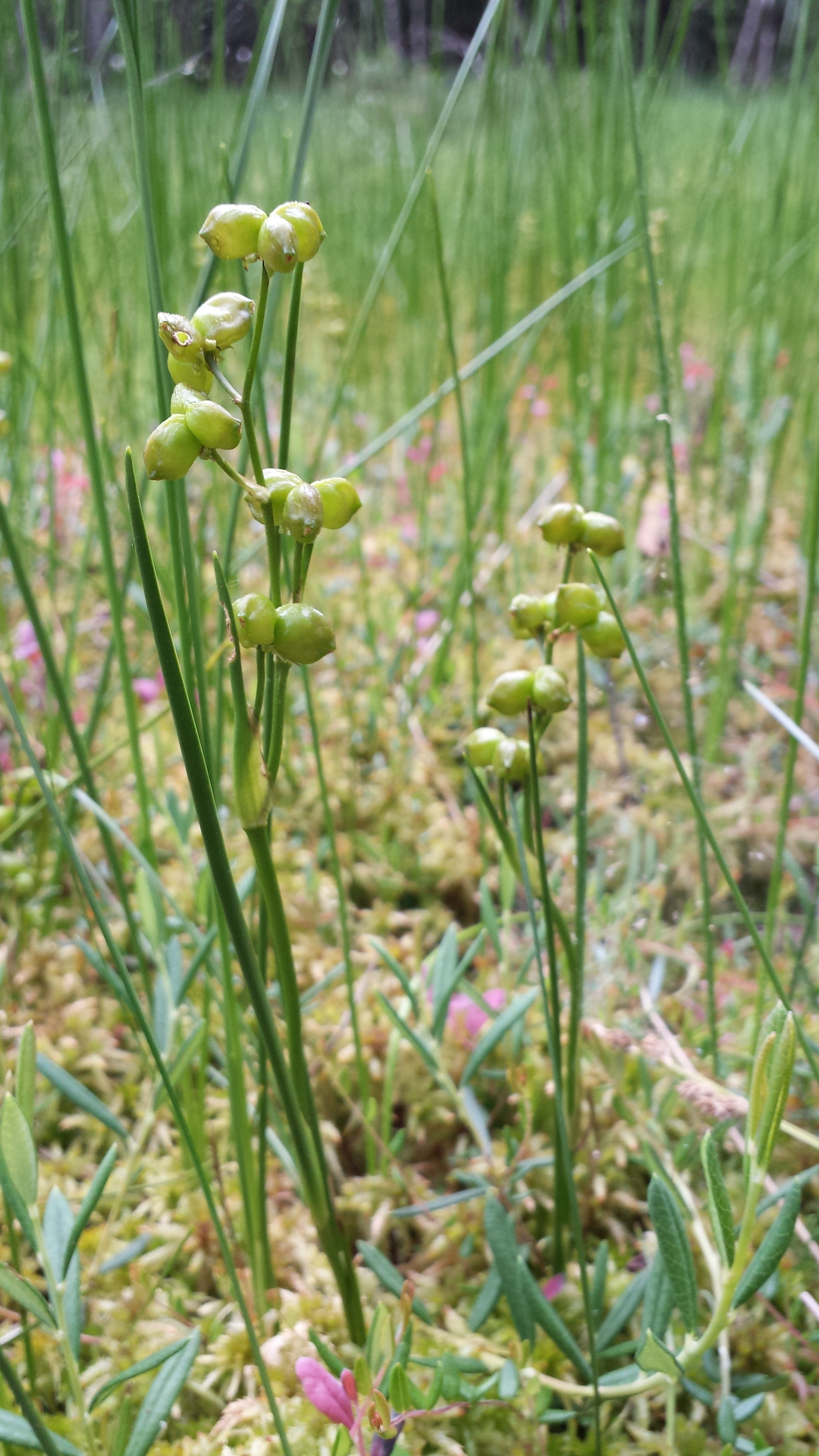 Taxon: Scheuchzeria palustris (sensu Fischer et al. EfÖLS 2008, det. M. A. Fischer 2013-06-22) Location: Pürgschachenmoos near Ardning, district Liezen, Styria, Austria - ca. 630 m a.s.l. Habitat: upland moor